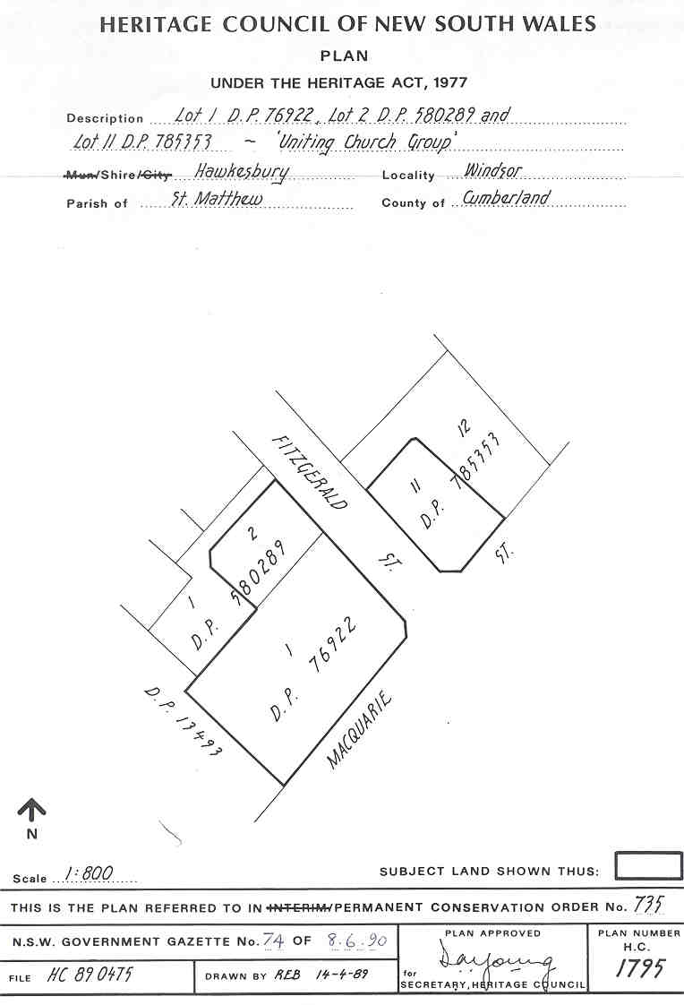 Mackenzie House, Windsor: PCO Plan Number 735